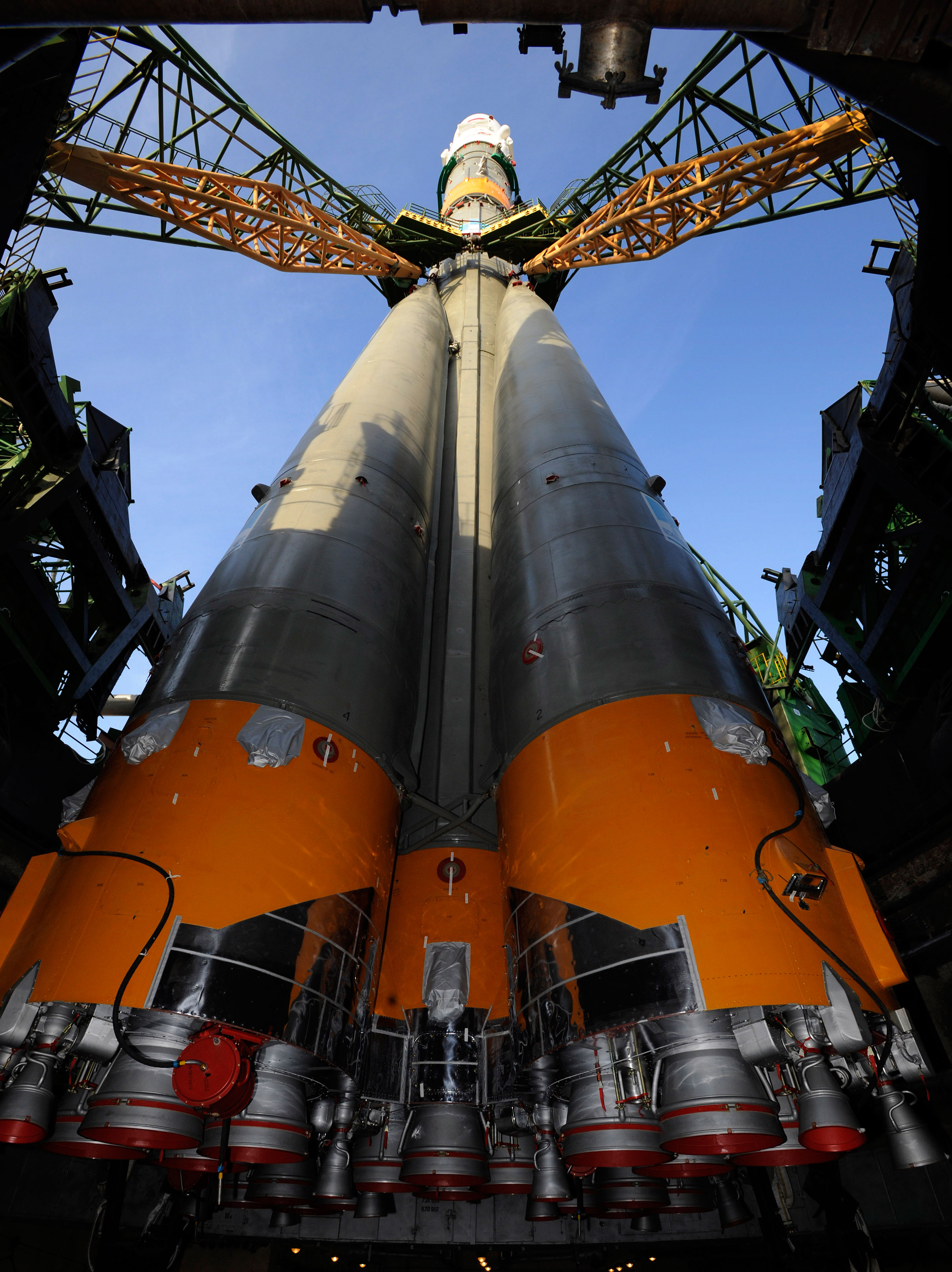 The Soyuz TMA-13 spacecraft arrives at the launch pad at the Baikonur Cosmodrome in Kazakhstan, Oct. 10, 2008 for launch Oct. 12 to carry NASA astronaut Michael Fincke, Expedition 18 commander; Russian Federal Space Agency cosmonaut Yury Lonchakov, Soyuz commander and Expedition 18 flight engineer; and American spaceflight participant Richard Garriott to the International Space Station. The three crew members will dock their Soyuz to the International Space Station on Oct. 14. Fincke and Lonchakov will spend six months on the station, while Garriott will return to Earth Oct. 24 with two of the Expedition 17 crewmembers currently on the station.